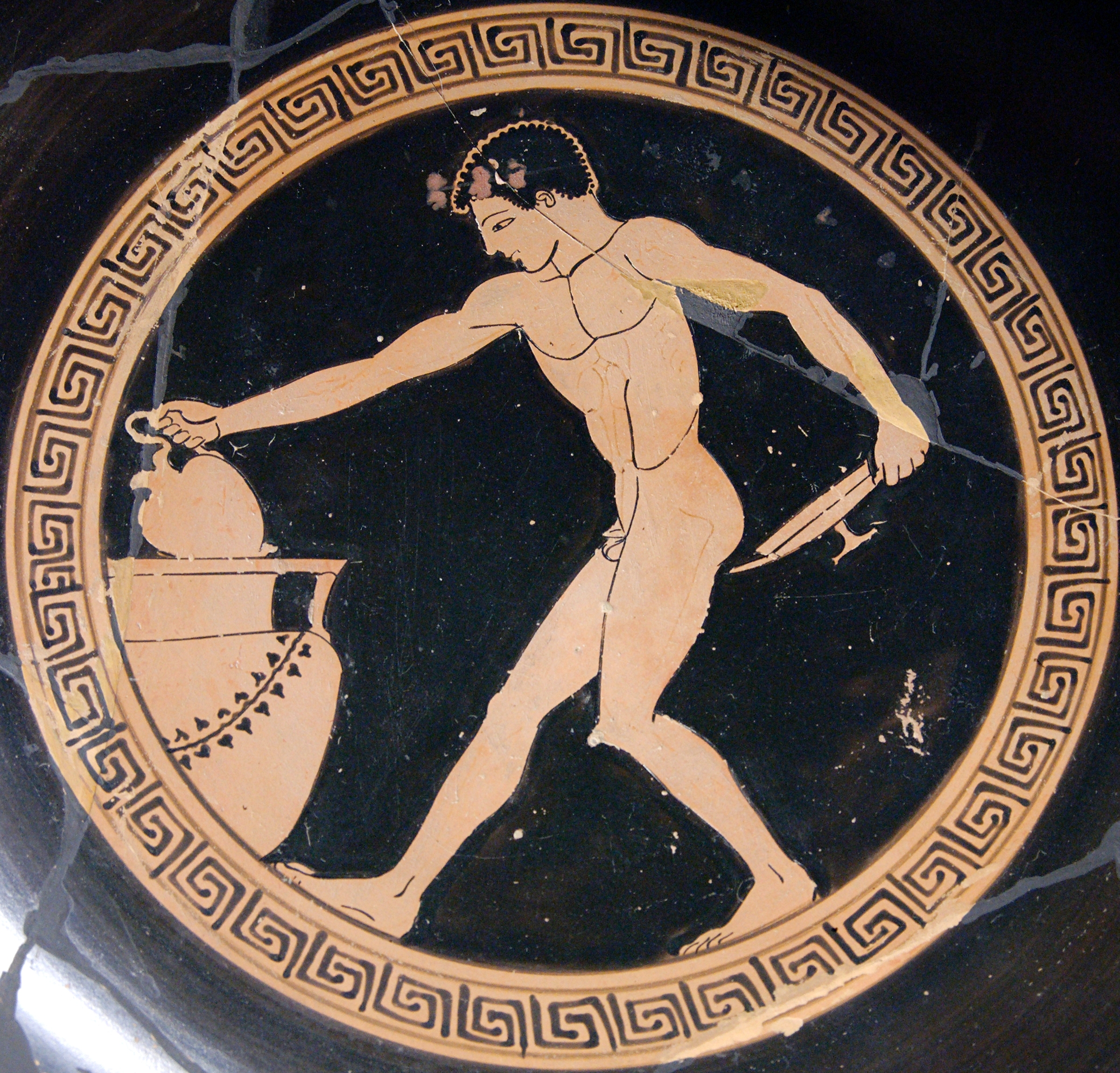 Youth using an oinochoe (wine jug, in his right hand) to draw wine from a crater, in order to fill a kylix (shallow cup, in his left hand). His nudity shows that he is serving as a cup-bearer in a symposium, or banquet. Kalos inscription. Tondo of an Attic red-figure cup, ca. 490-480 BC.